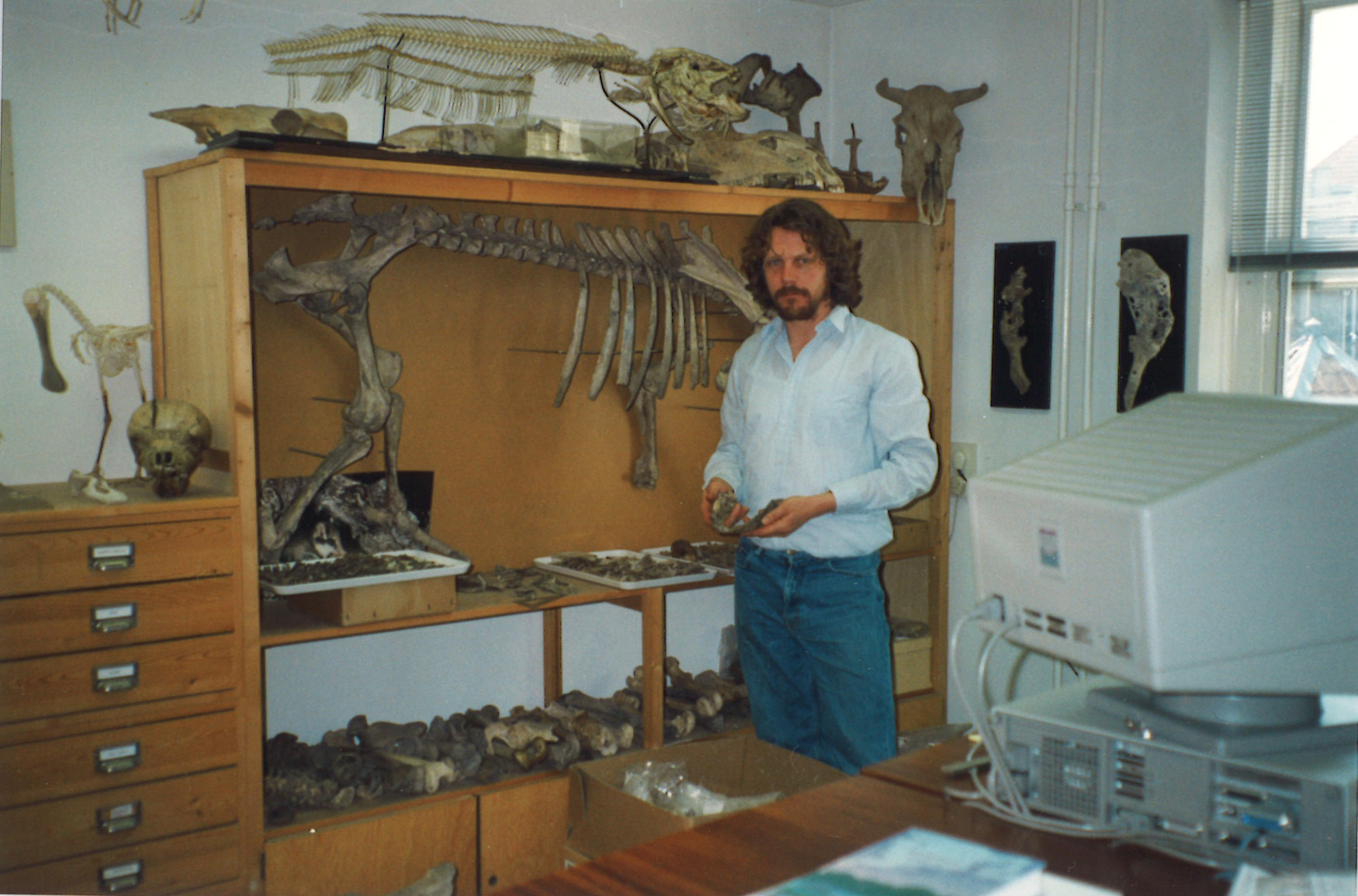 Archaeozoology, skeleton showcase with researcher at Rijksdienst voor het Cultureel Erfgoed, The Netherlands